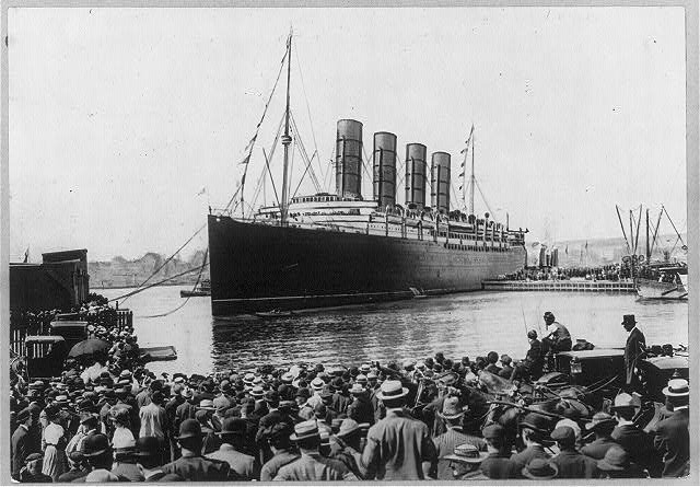 LUSITANIA, 1907-1914, New York City: warping into dock, NYC, 13 Sept. 1907, crowd in foregrd.